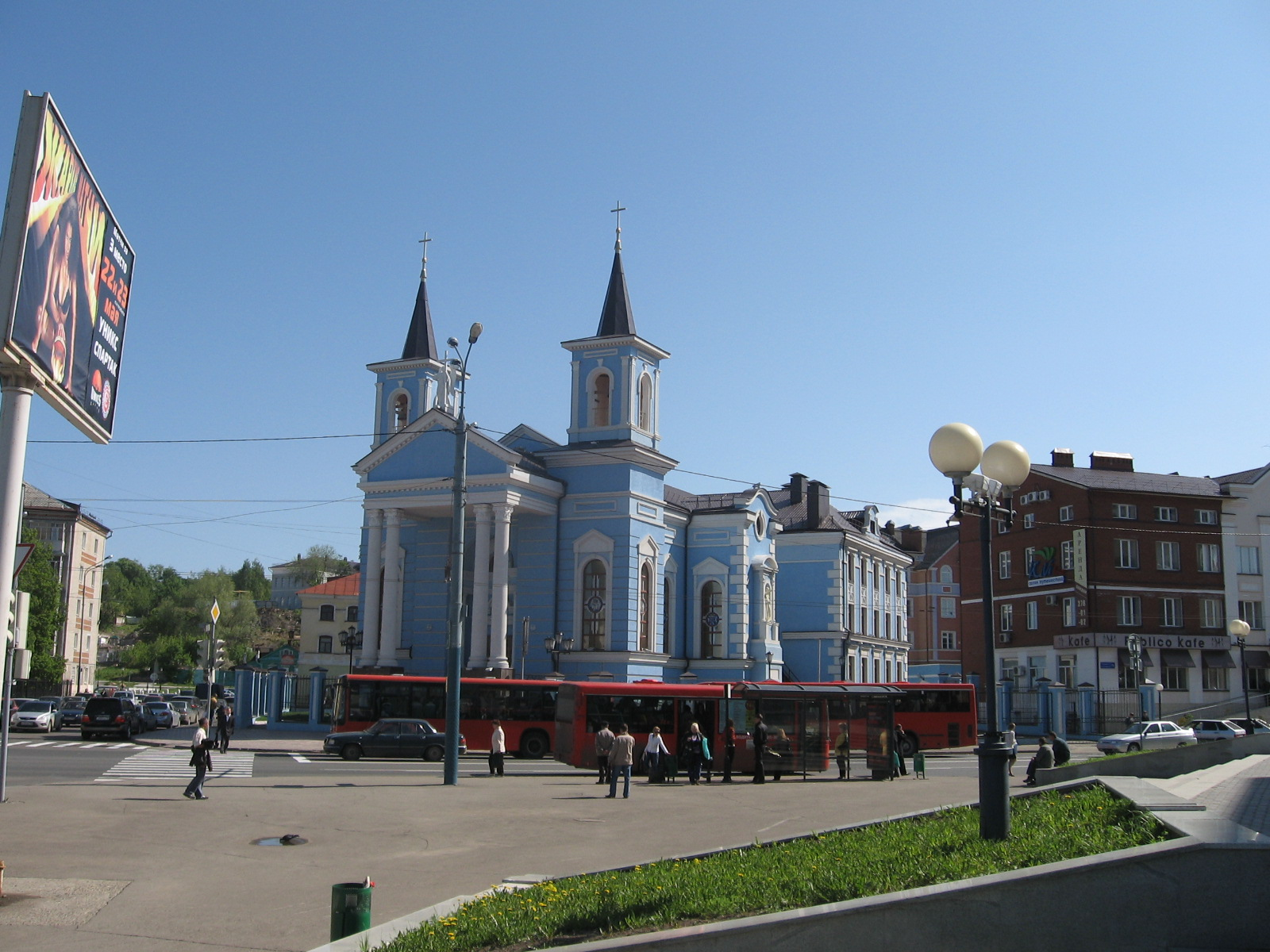 Roman-catholic church, Kazan